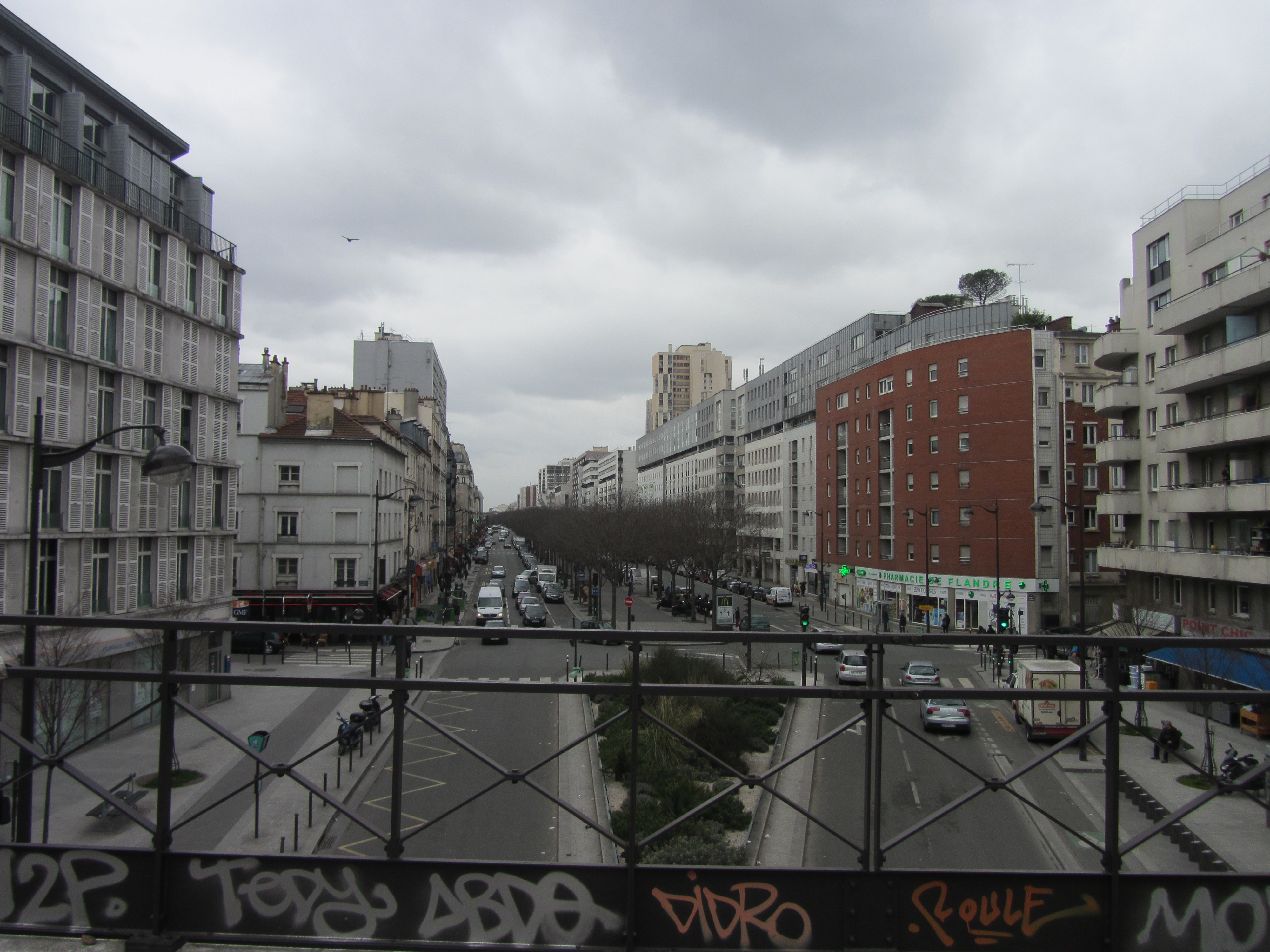 This document was produced using the Canon PowerShot SX230 HS lent by Wikimedia France.